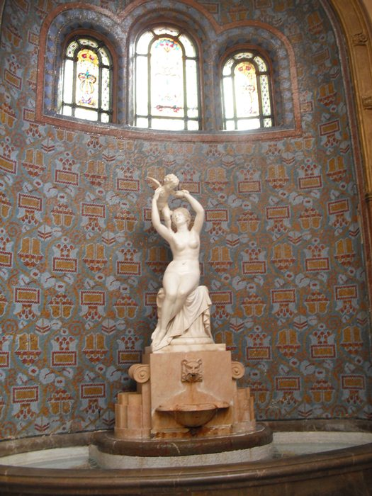 Venus and Amor - Statue in the Gellért baths